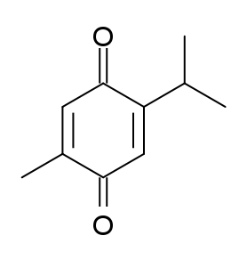 Structure of thymoquinone